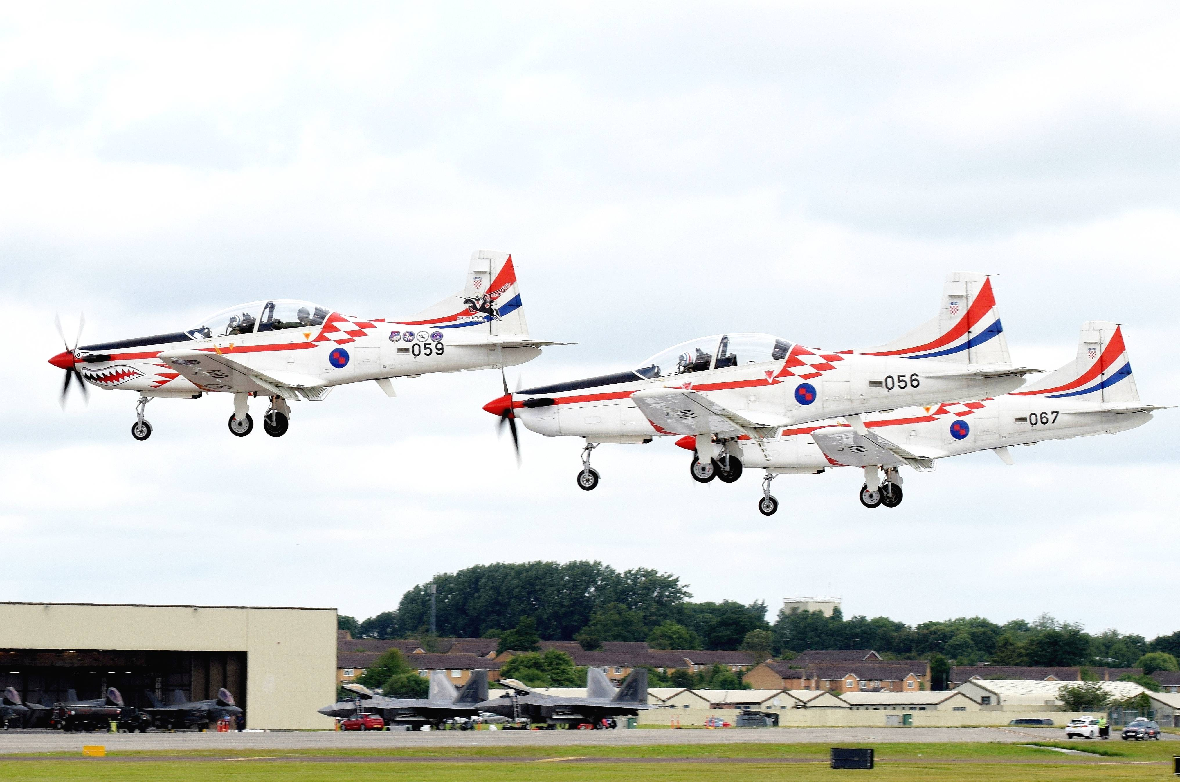 Three of the six Pilatus PC-9M aircraft of the Croatian Air Force aerobatic display team 'Krila Oluje' arrive at the 2016 Royal International Air Tattoo, Gloucestershire, England. (In the hangar are three F-35 Lightnings and outside two F-22 Raptors).